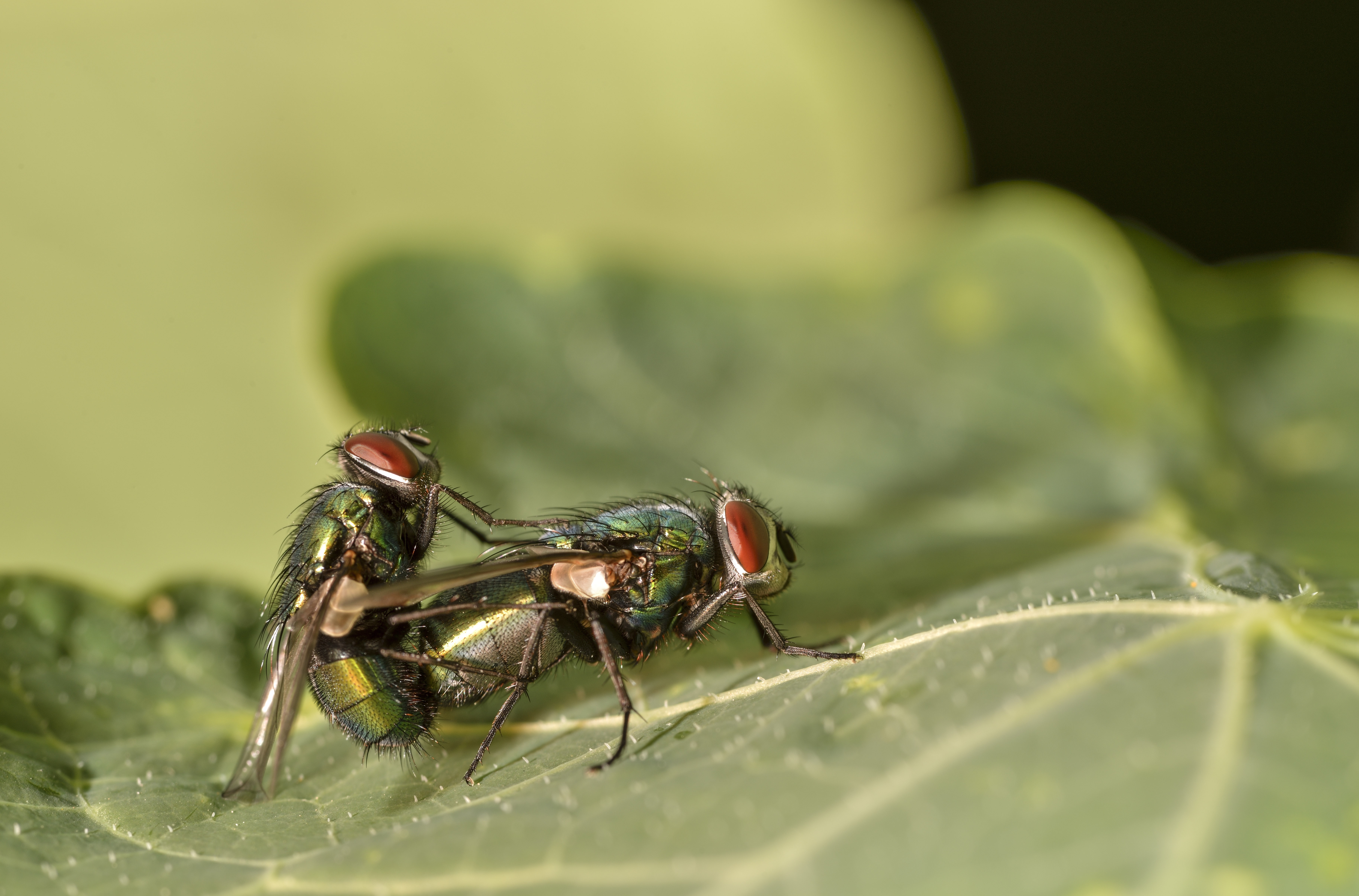 Lucilia sericata mating